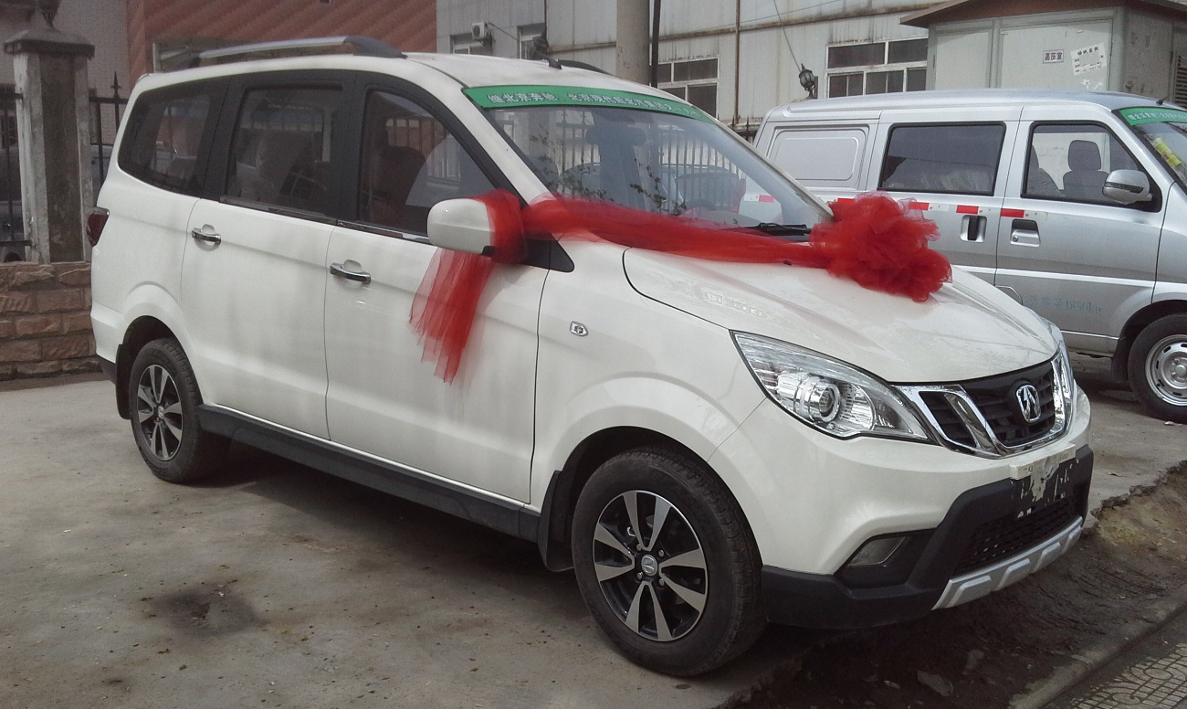 Weiwang M35 photographed in Xi'an, Shaanxi province, China.